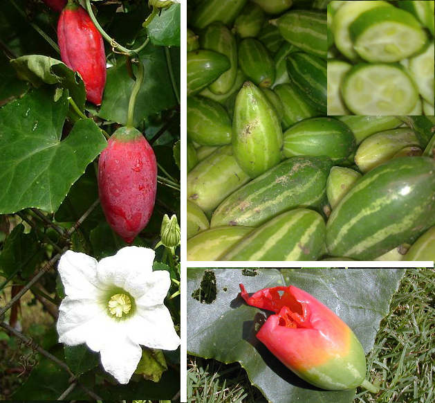 Coccinia grandis, the "Ivy gourd".